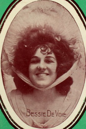 Bessie De Voie, from a 1906 sheet music publication. She is a white woman, smiling, wearing a large fluffy hat with a scarf tied under her chin; her name is printed across her chest.